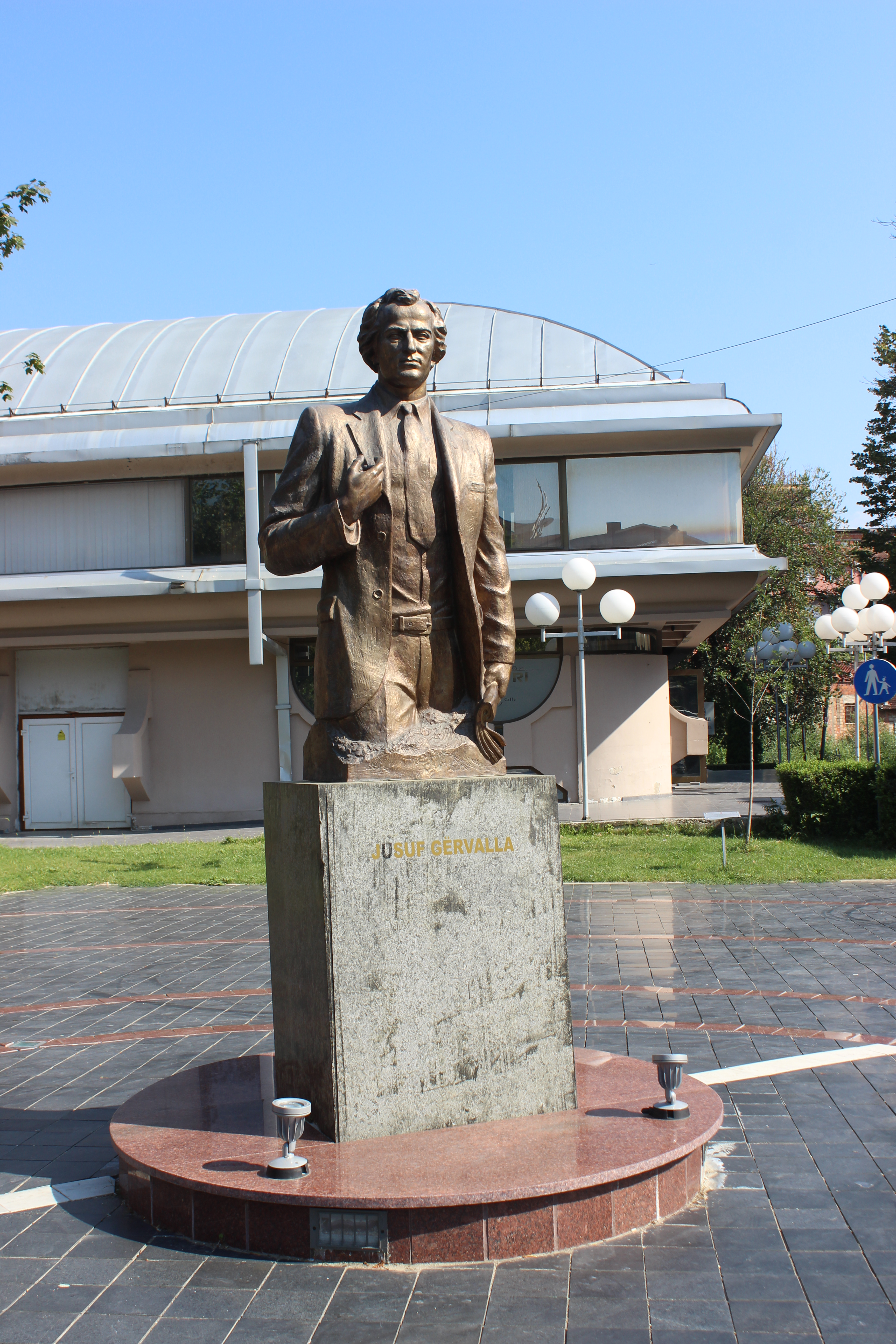 Jusuf Gervalla is a hero of our independent Kosovo.